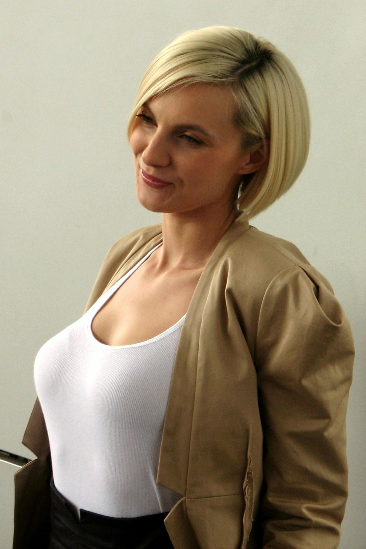 Sylwia Gliwa during XXXV Polish Film Festival in Gdynia 2010.